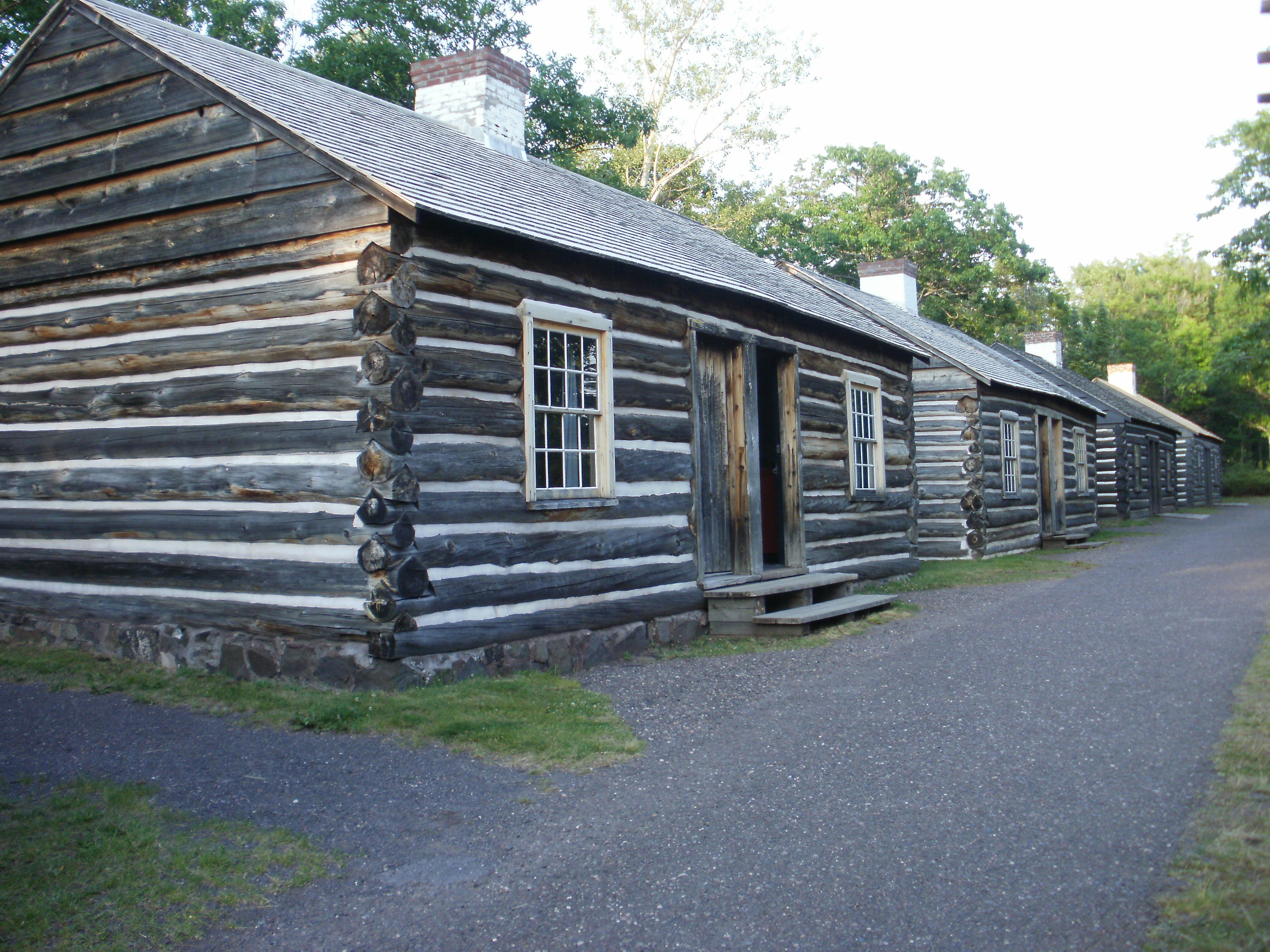 The Married Enlisted Soldiers Quarters (4 log cabins) — at Fort Wilkins Historic State Park, Copper Harbor, Upper Michigan.